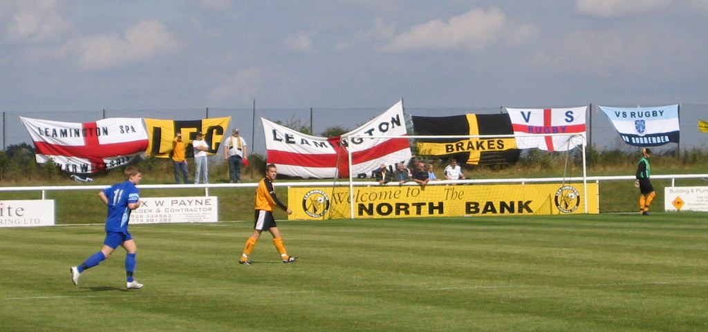 Supporters' flags at Leamington FC